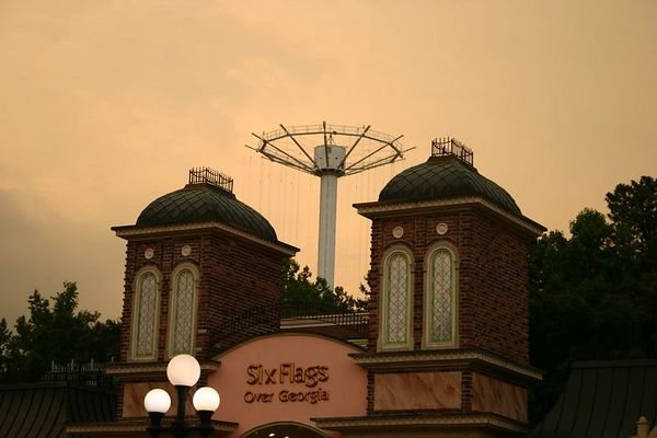 The Great Gasp's presence was immediately noticed when you entered the park.